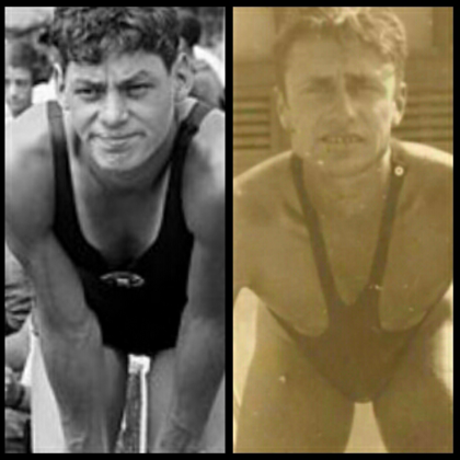 Johnny Weismuller / Taq Dafa